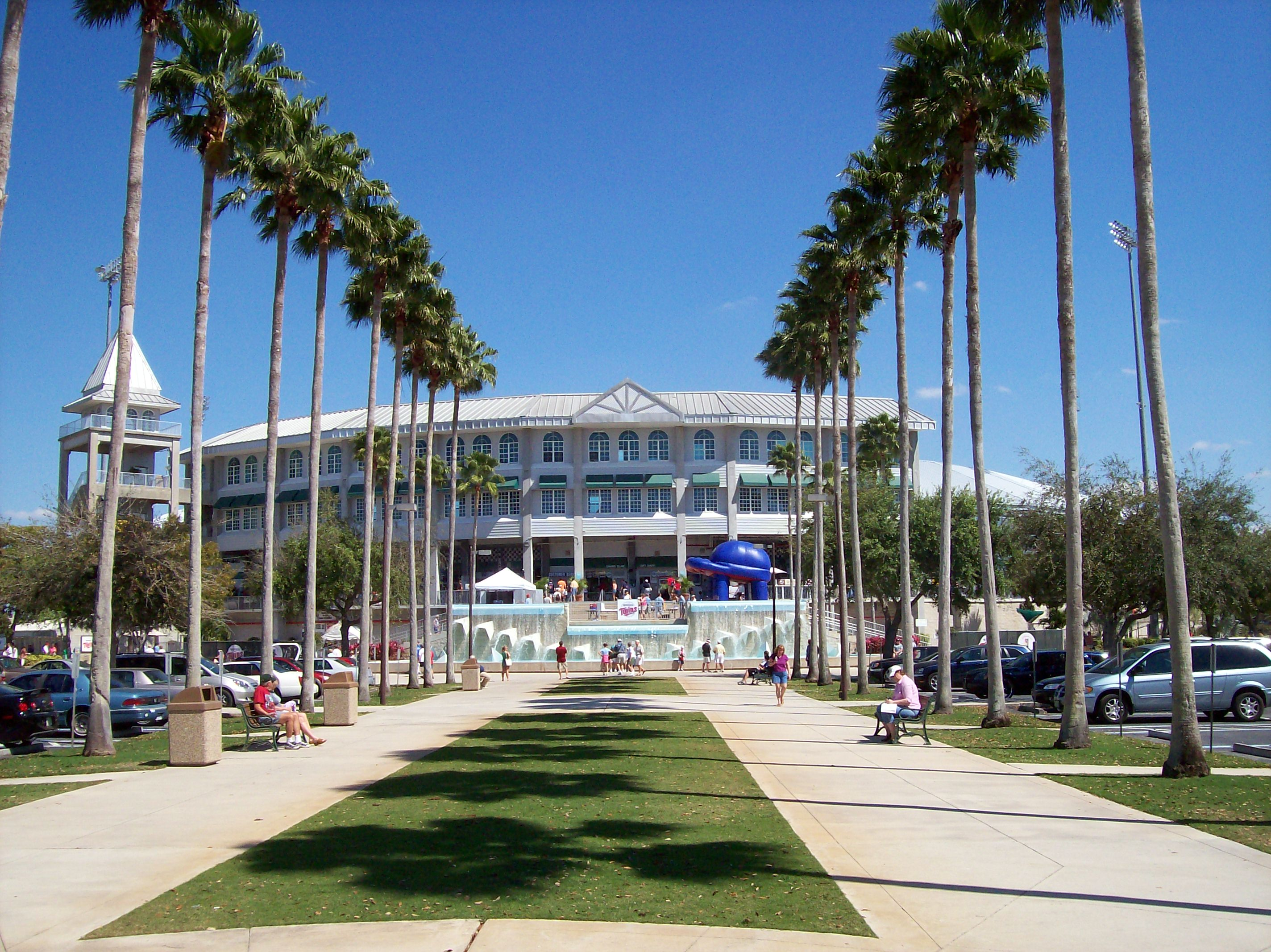 Hammond Stadium in South Fort Myers, Florida. Taken during 2007 Minnesota Twins Spring Training.